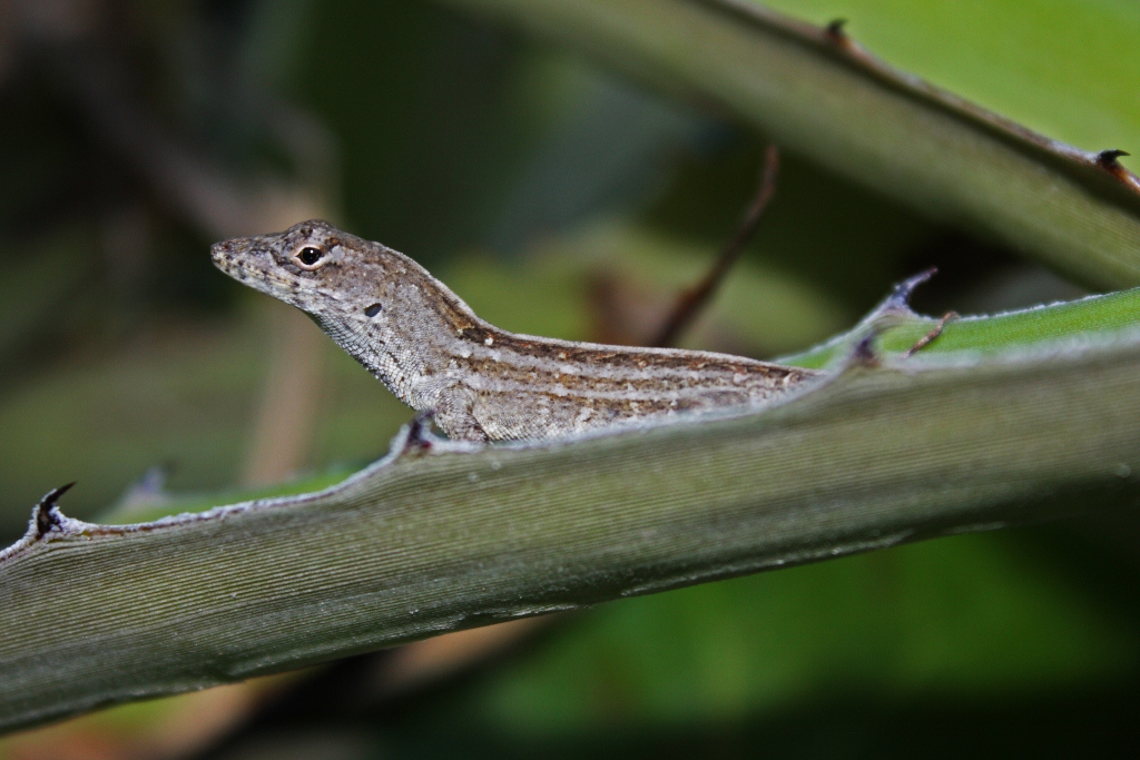 I'm not familiar enough with anole species to be 100% on these identifications, but from the few online sources I found, this seemed to be a best fit. Please let me know if you think it might be another species. Playa Maguana, Guantanamo.